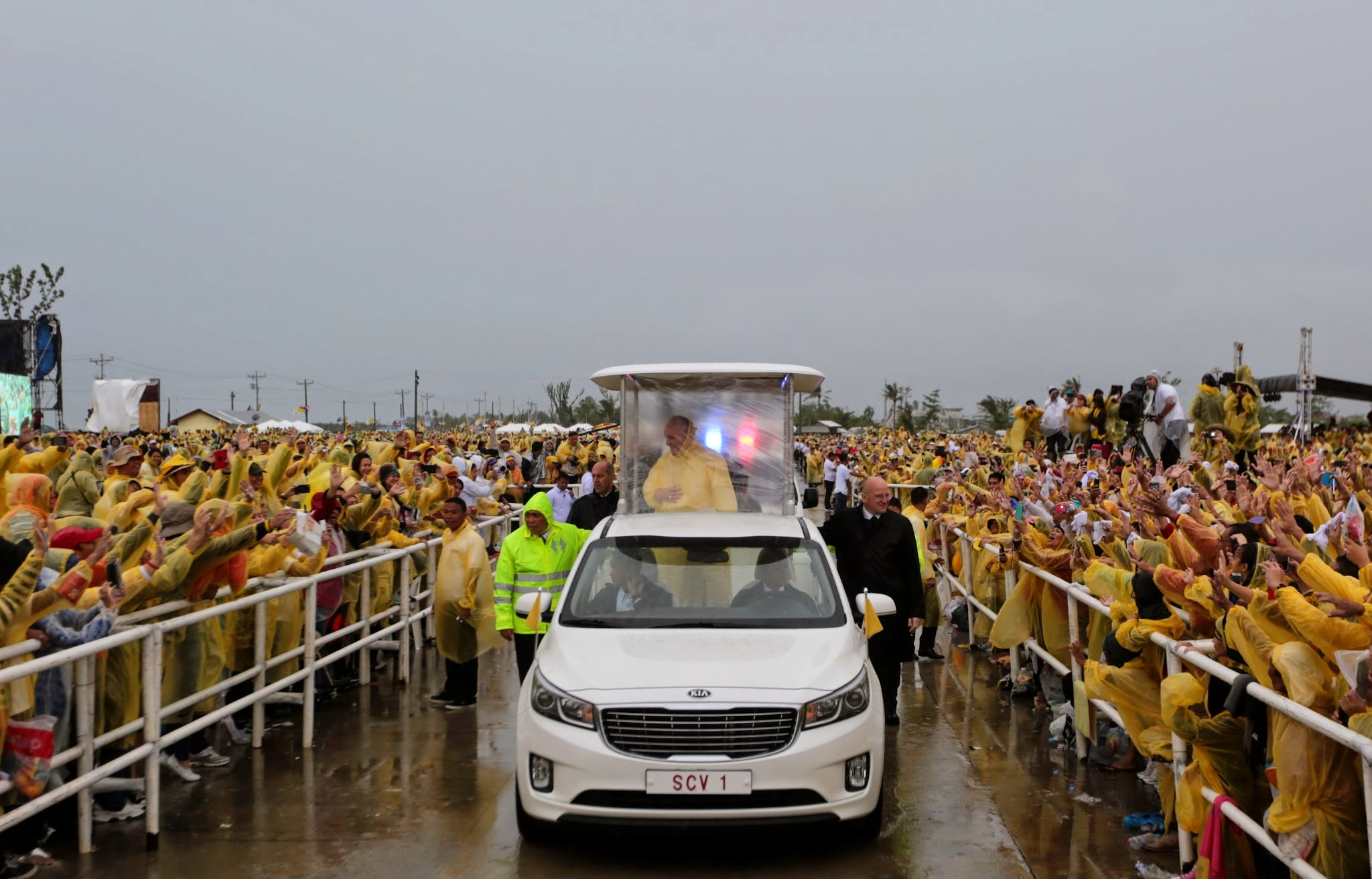 Pope Francis, wearing raincoat, bless the crowd after the mass near the Tacloban Airport, Saturday, January 17, 2015, enroute to Palo, Leyte to visit families of typhoon Yolanda victims. Leyte and the nearby provinces is under typhoon signal number 2 when the Pope arrived.